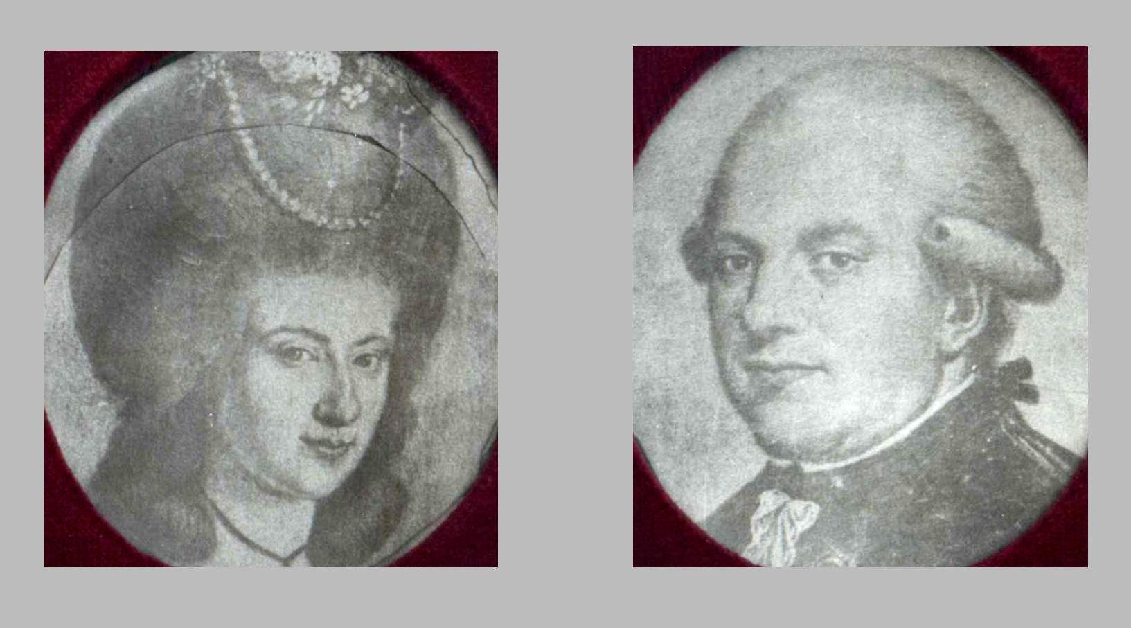 Pier Francesco A. and Maria Artemisia Pitti